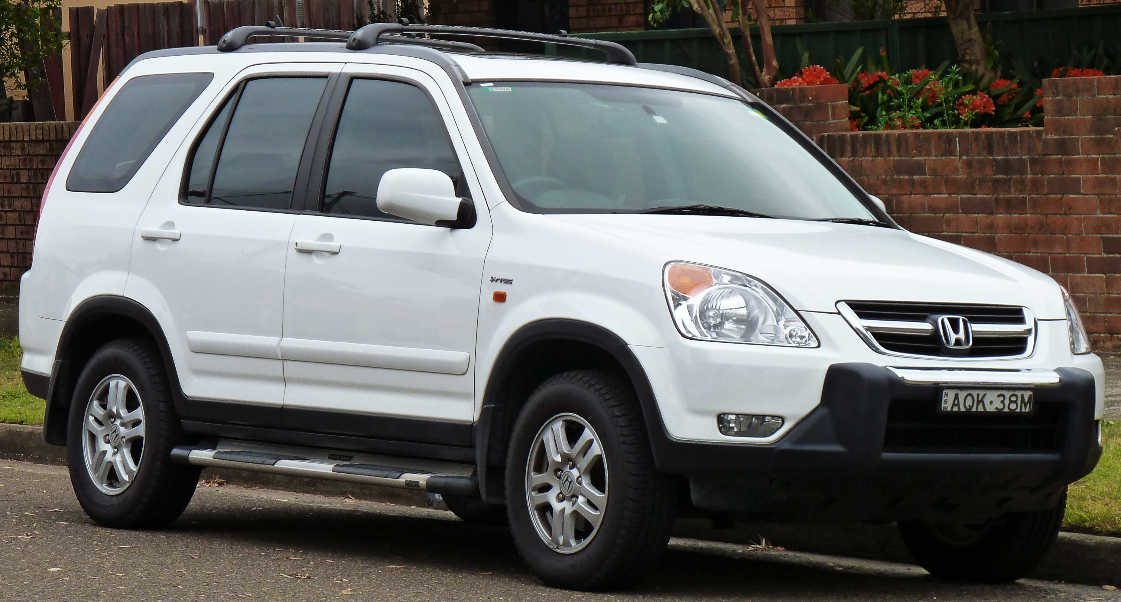 2003 Honda CR-V (RD7 MY03) Sport wagon. Photographed in Sandringham, New South Wales, Australia.